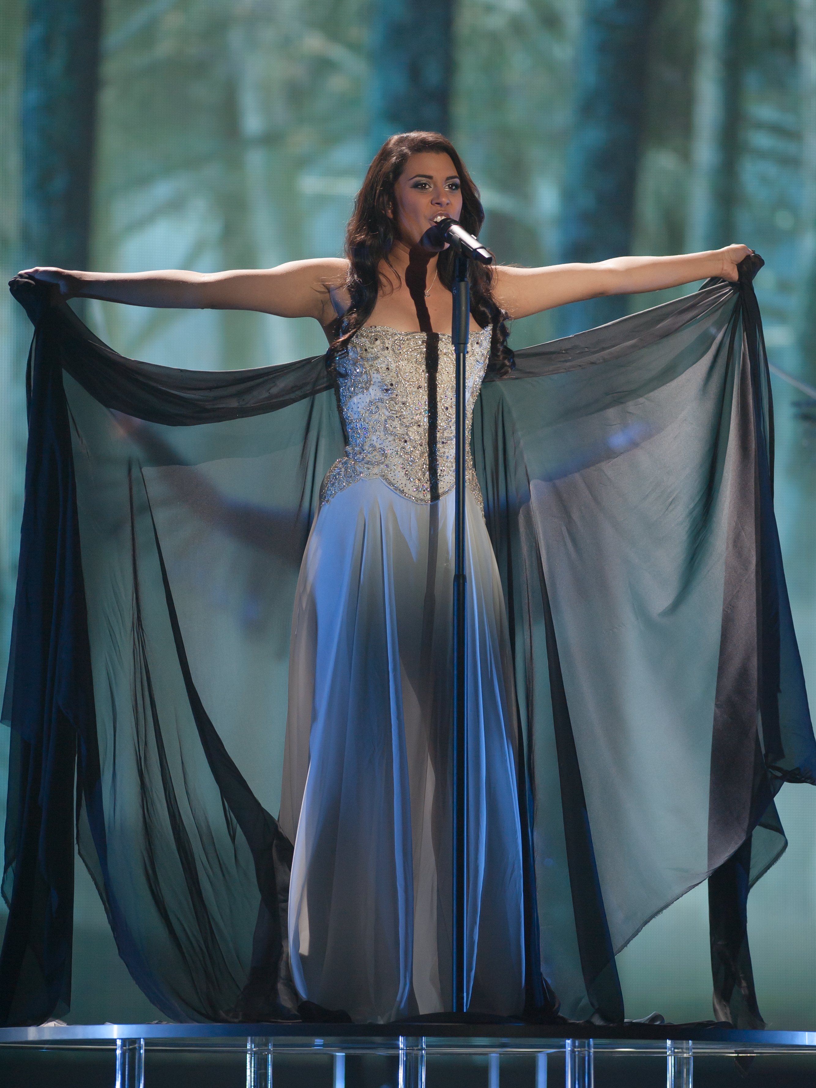 Eurovision Song Contest Vienna 2015: Mélanie René